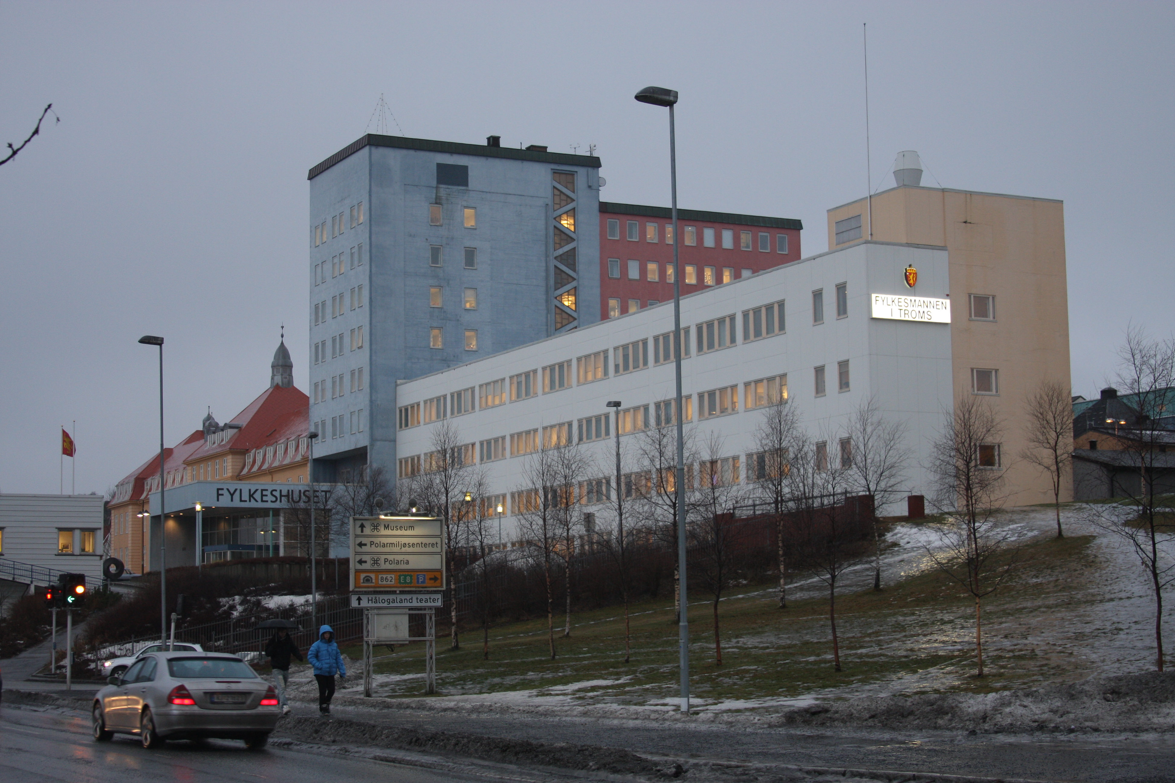 Fylkeshuset i Troms (The Governor of Troms) building, Tromsö (Norway)